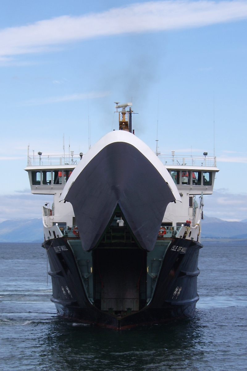 Caledonian MacBrayne ferry, MV Isle of Mull getting ready to dock at Craignure on the Isle of Mull. IMO Number: 8608339 MMSI Number: 232343000 Callsign: MJCE3 Length: 90 m Beam: 16 m